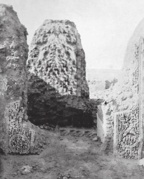 the ruins of a building in al-Hira, south of Najaf by 1919 German expedition.